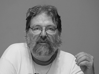 Picture of Niels Dalgaard, taken at Eurocon 2007 in Valby, Denmark.